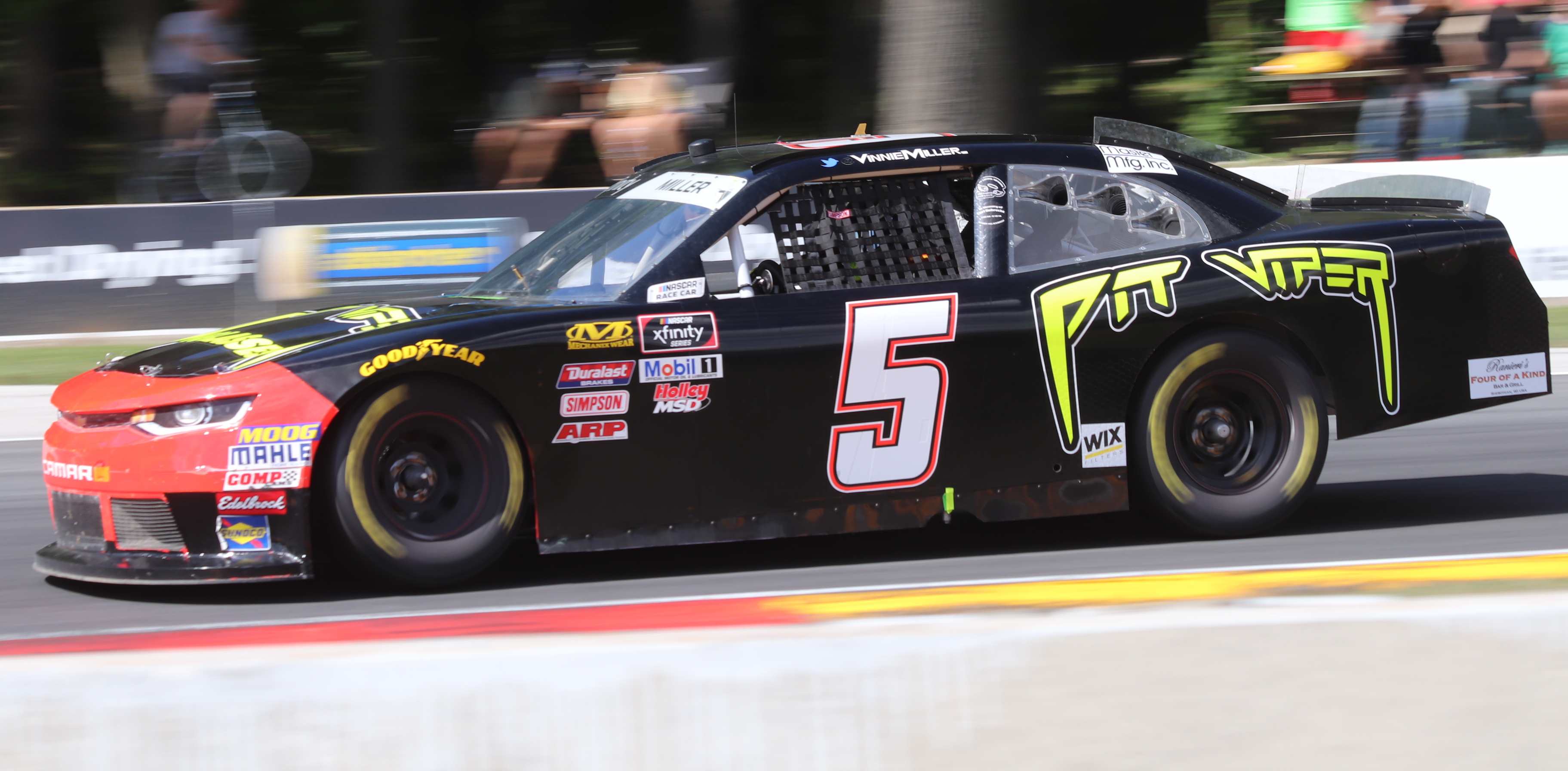 The #5 Chevrolet Camaro of Vinnie Miller at the NASCAR CTECH 180.